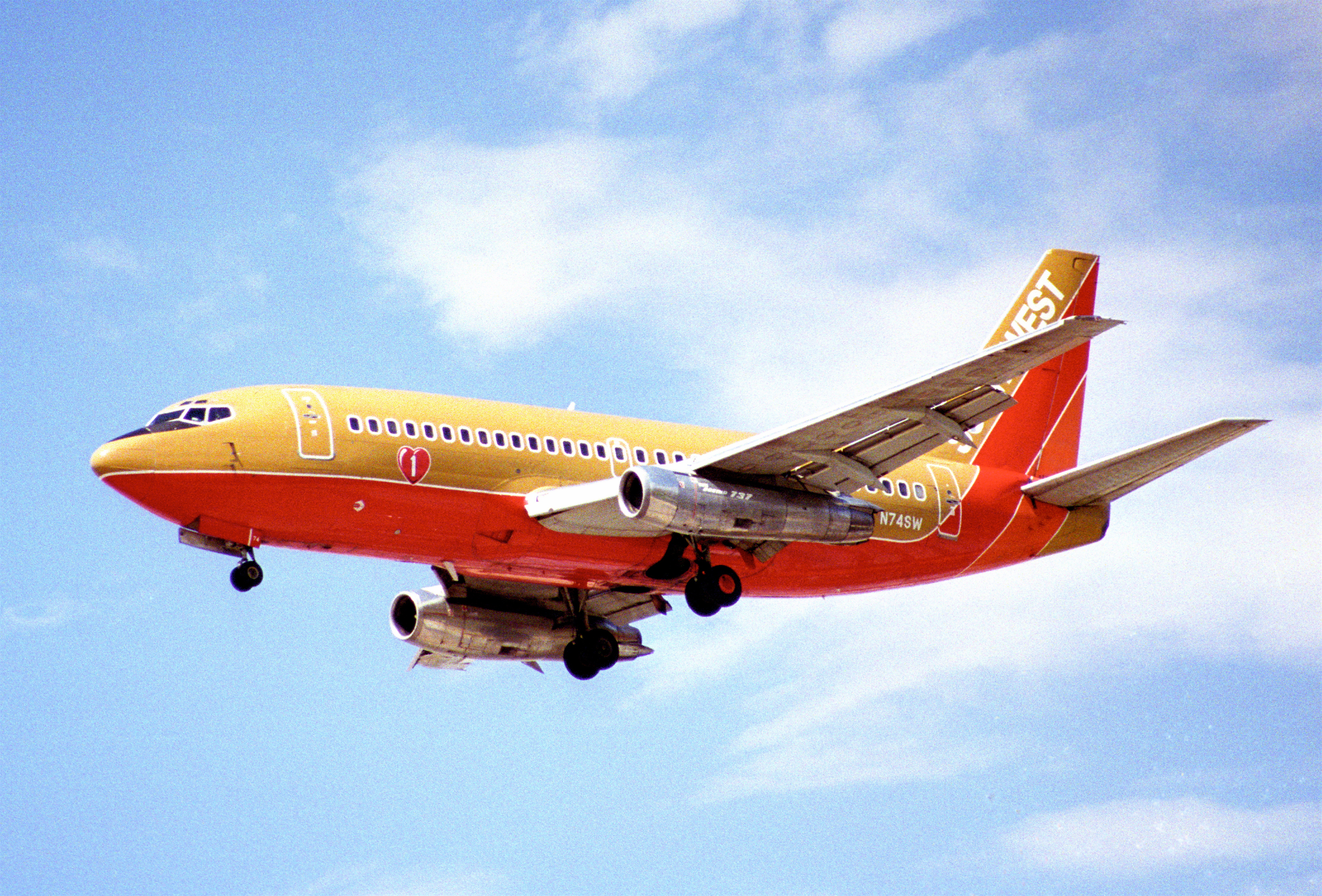 Southwest Airlines Boeing 737-2H4; N74SW@LAS;01.08.1995